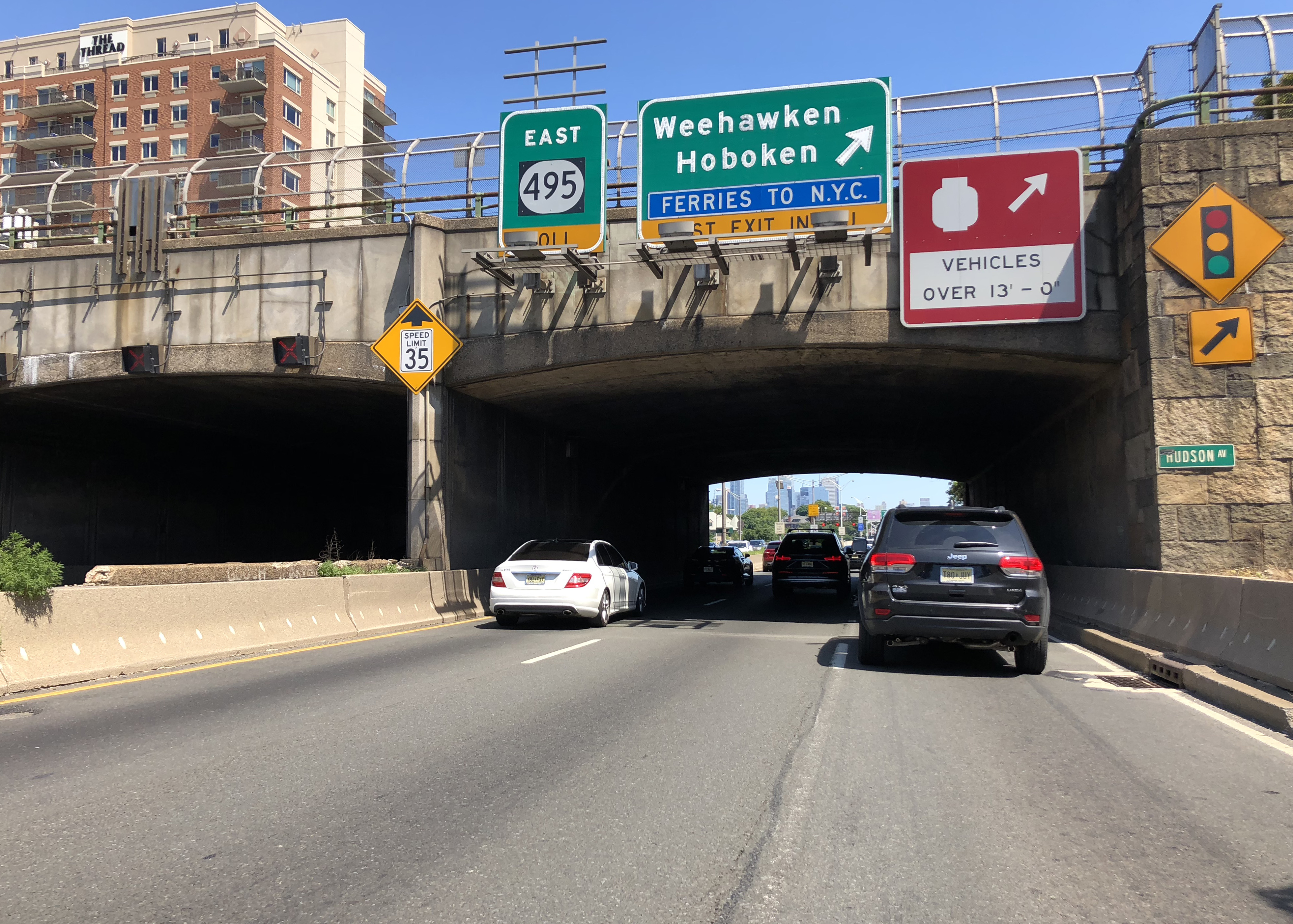 View east along New Jersey State Route 495 (Lincoln Tunnel Approach) at the exit for Weehawken and Hoboken in Union City, Hudson County, New Jersey